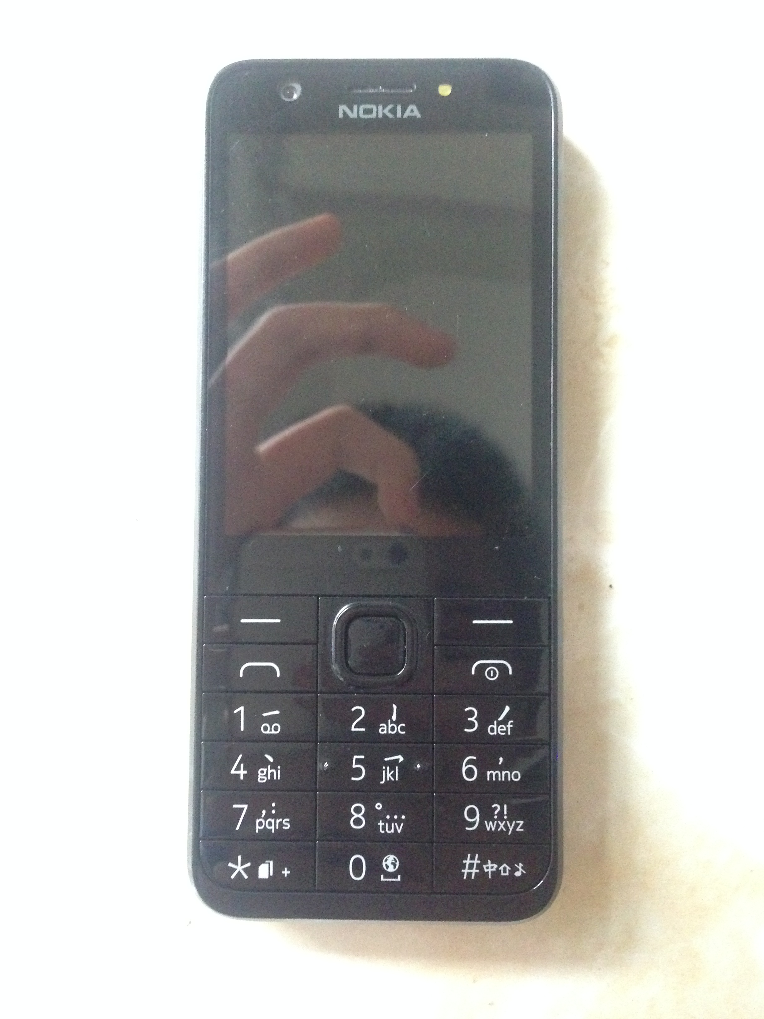 A Picture of Nokia 230 black